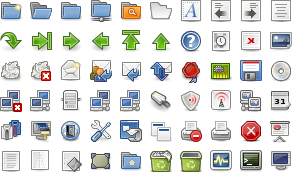 Example Tango Icons